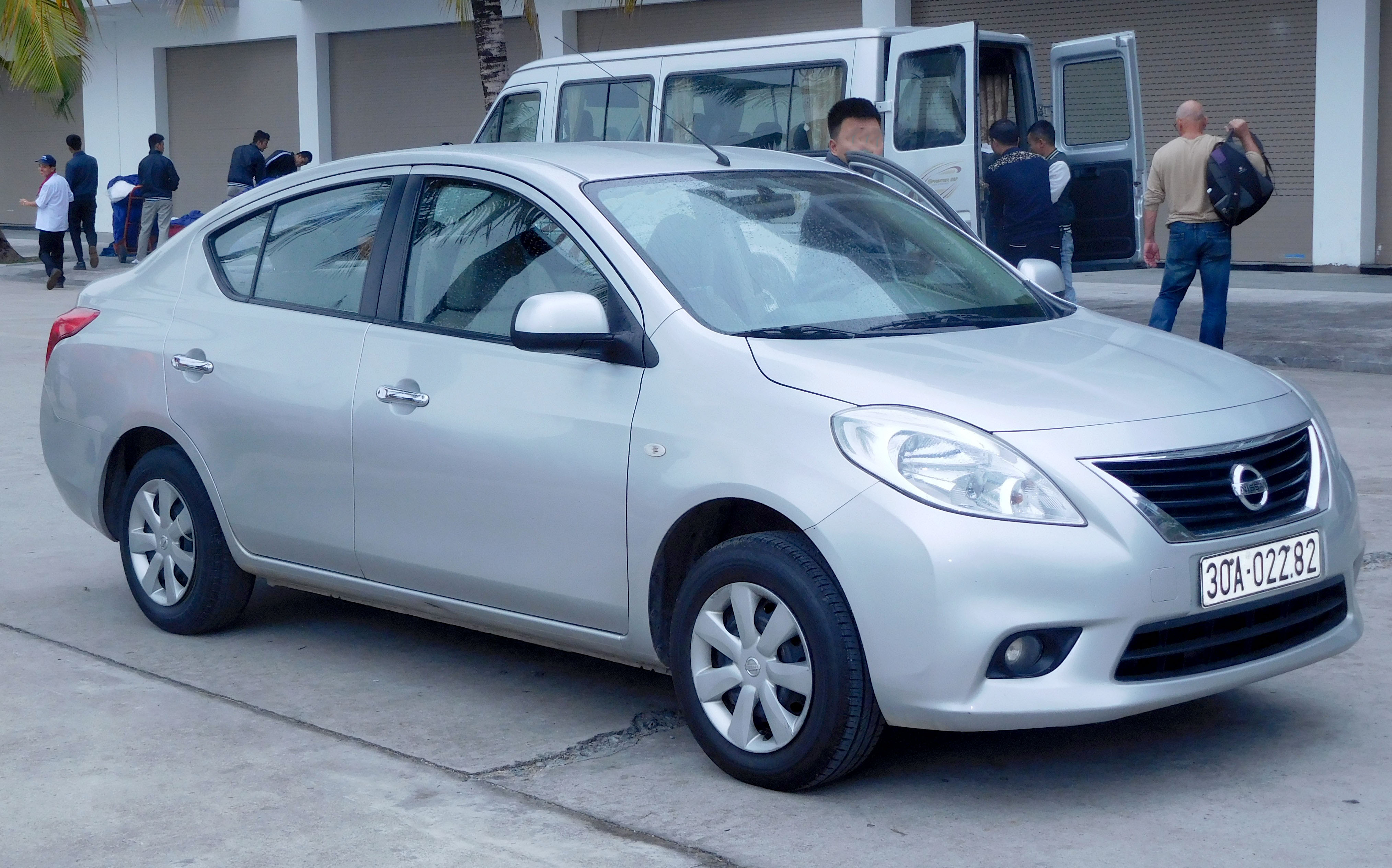 Nissan Sunny XL sedan, photographed in Halong Bay, Vietnam.